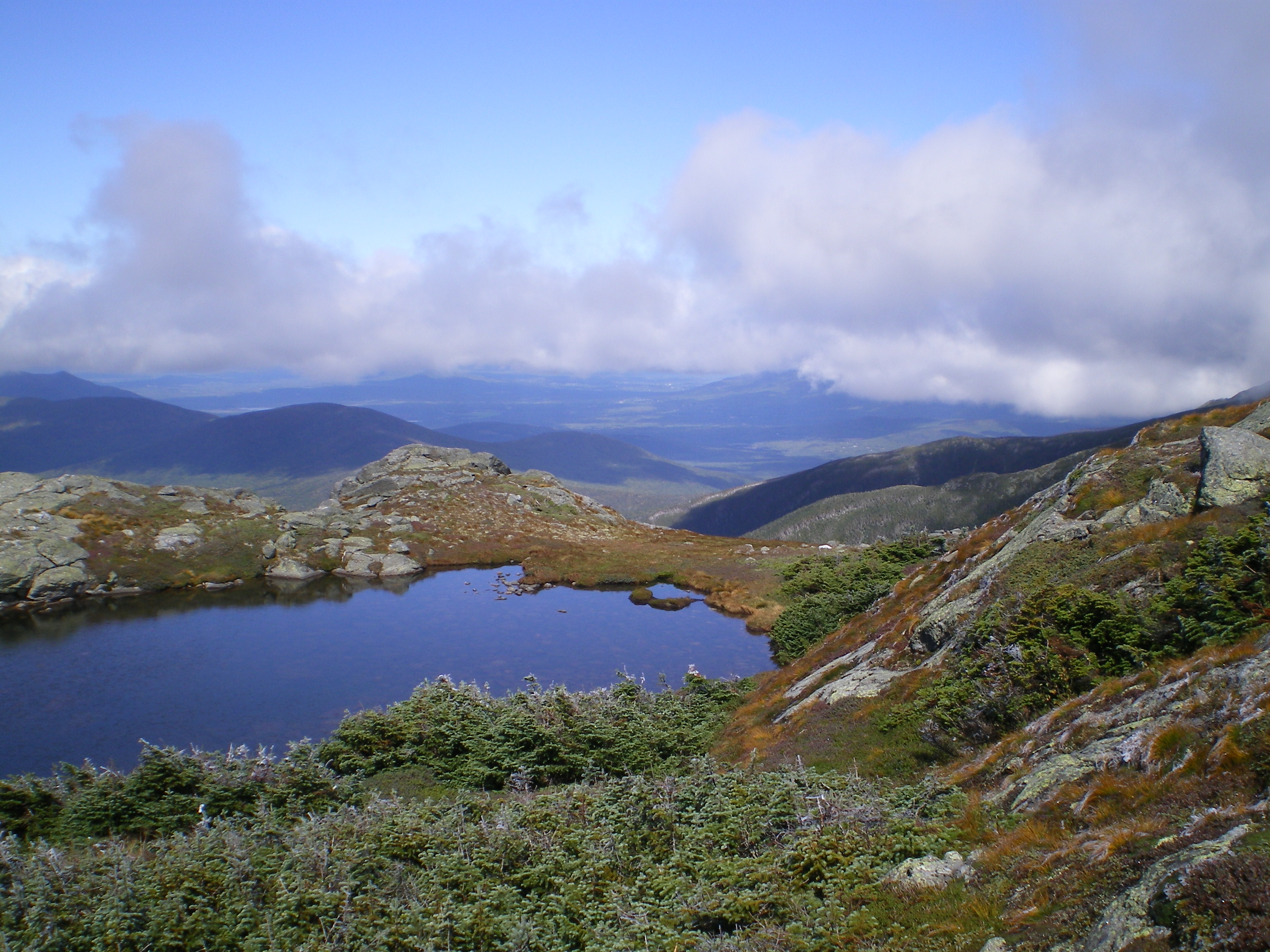 Pond at Lakes of the Clouds